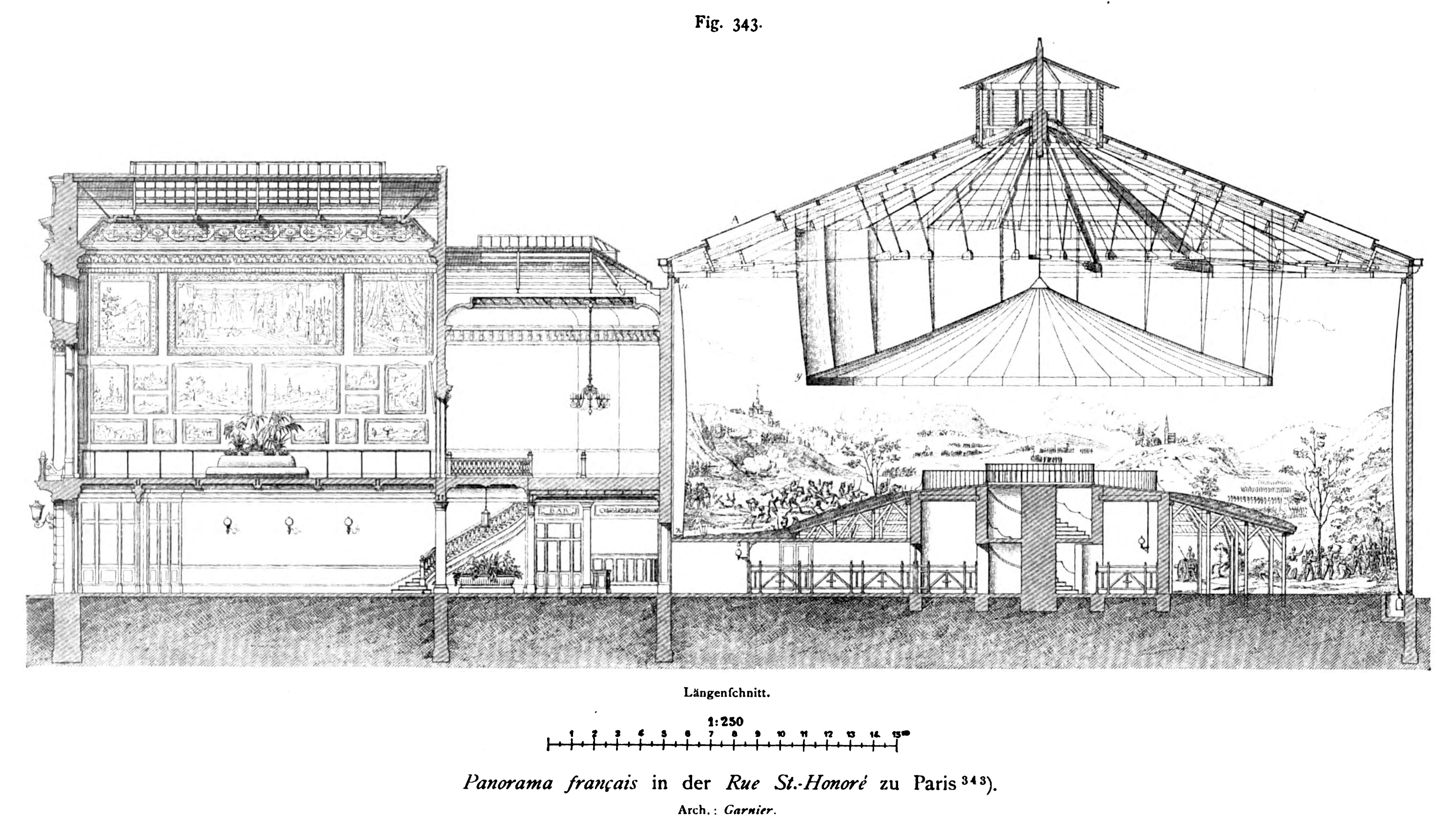 Architectural section of the Panorama Français (also known as the Panorama Valentino), 251 rue Saint-Honoré, Paris, designed by the architect Charles Garnier in 1880–1882 (demolished)